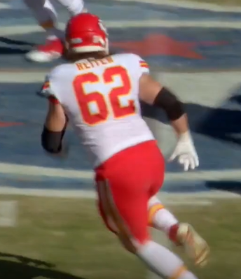 Austin Reiter 2019. Image taken from video Rashaan Evans' Clutch Fumble Return TD | Nissan Pylon Cam ~ 00:16